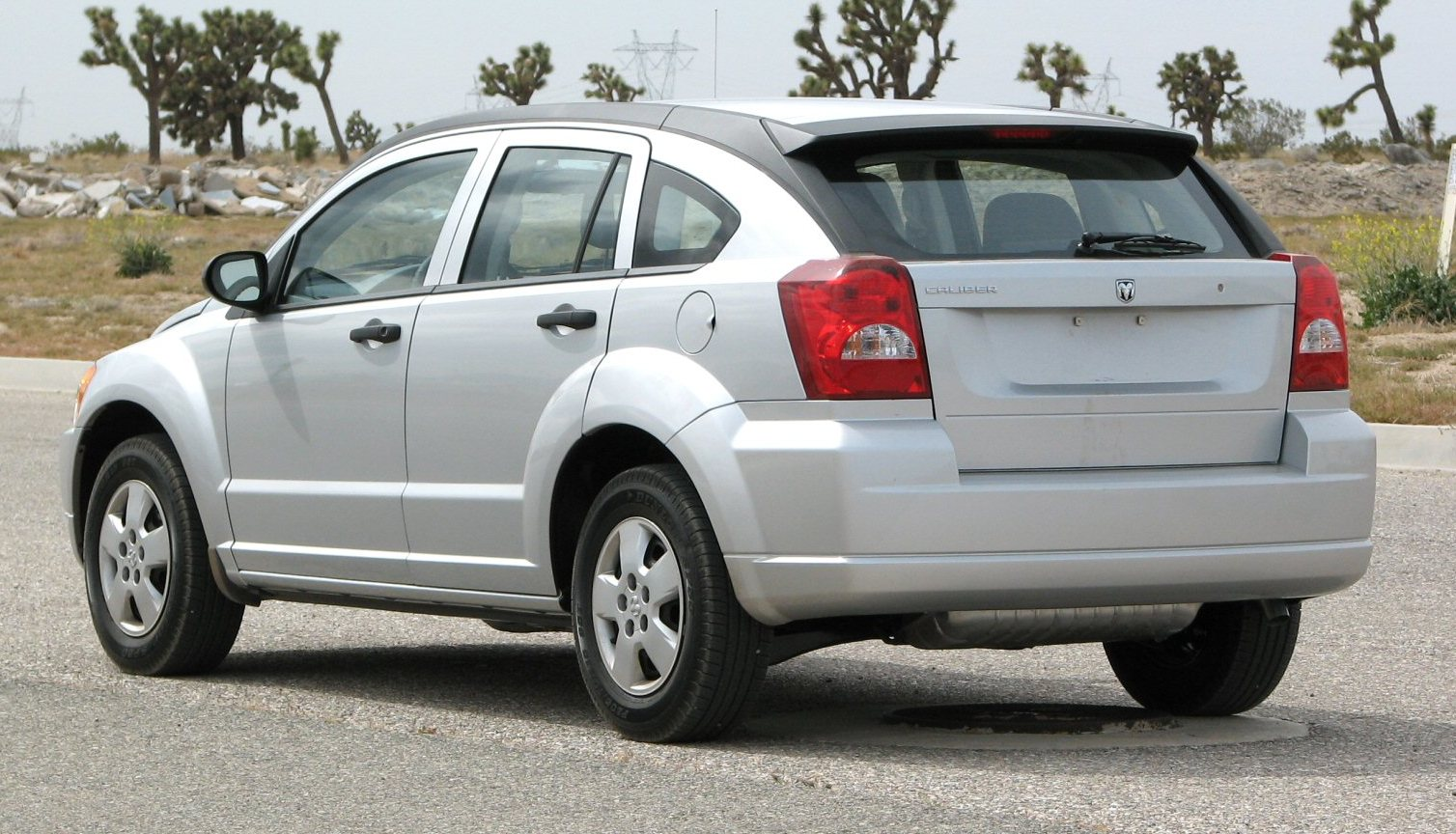 2007 Dodge Caliber, photographed in USA.